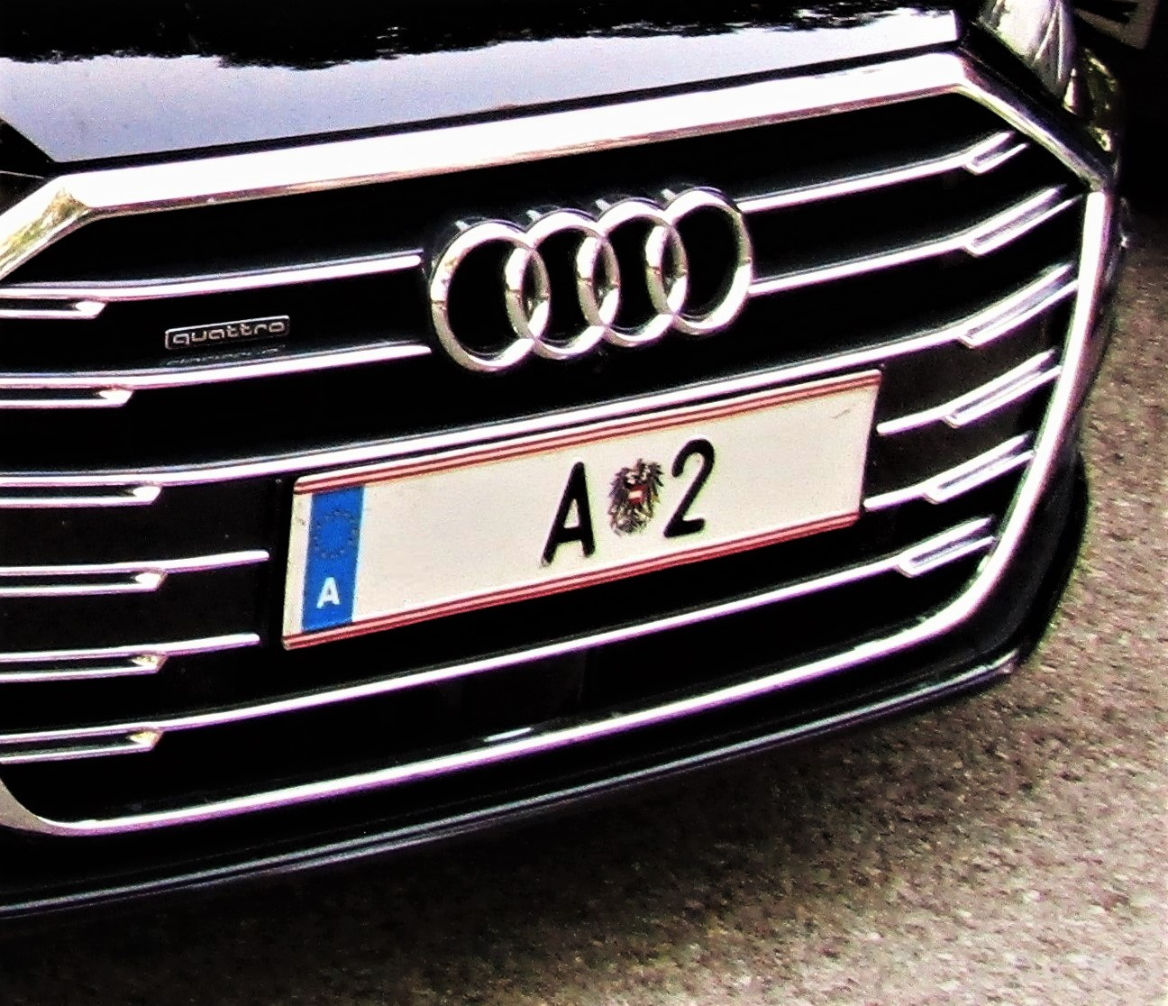 A 2, seen in Bregenz, Vorarlberg